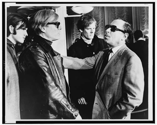 Andy Warhol (left) and Tennessee Williams (right) talking on the S.S. France, in the background: Paul Morrissey. World Journal Tribune photo by James Kavallines.